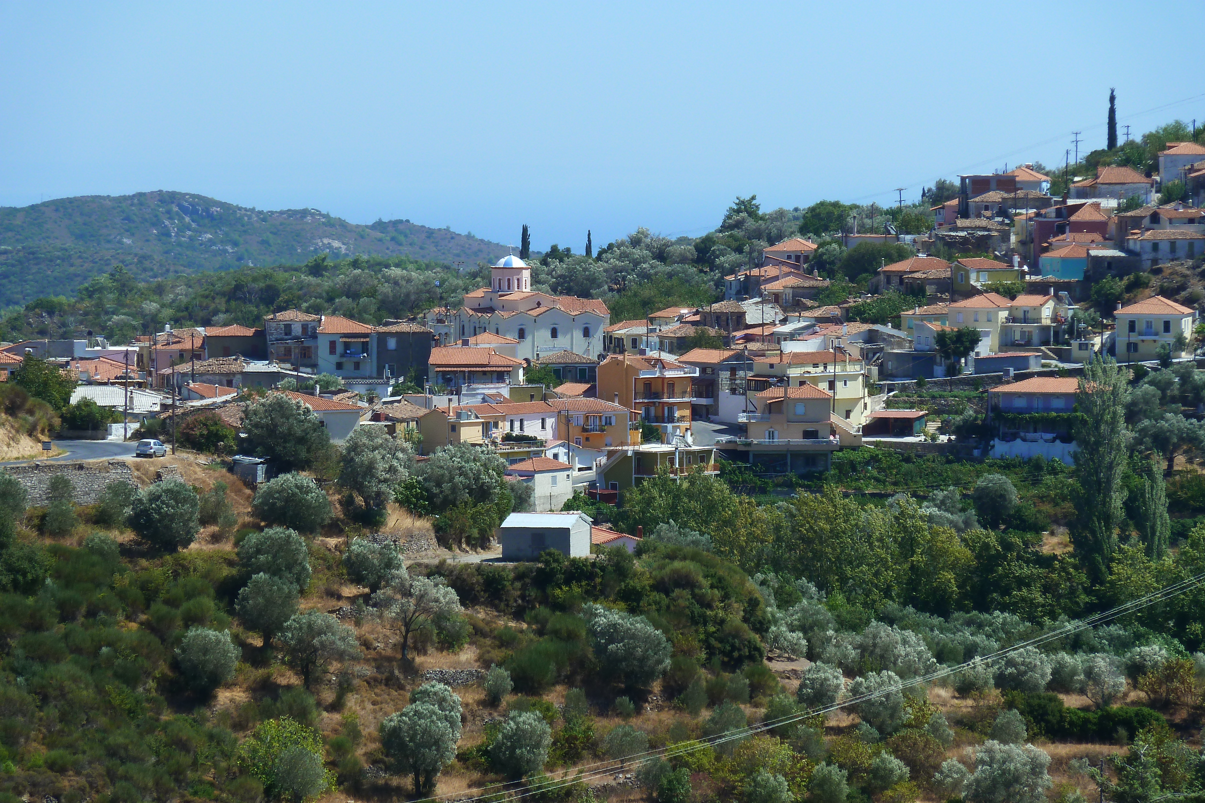 Pyrgos village on the Greek island of Samos